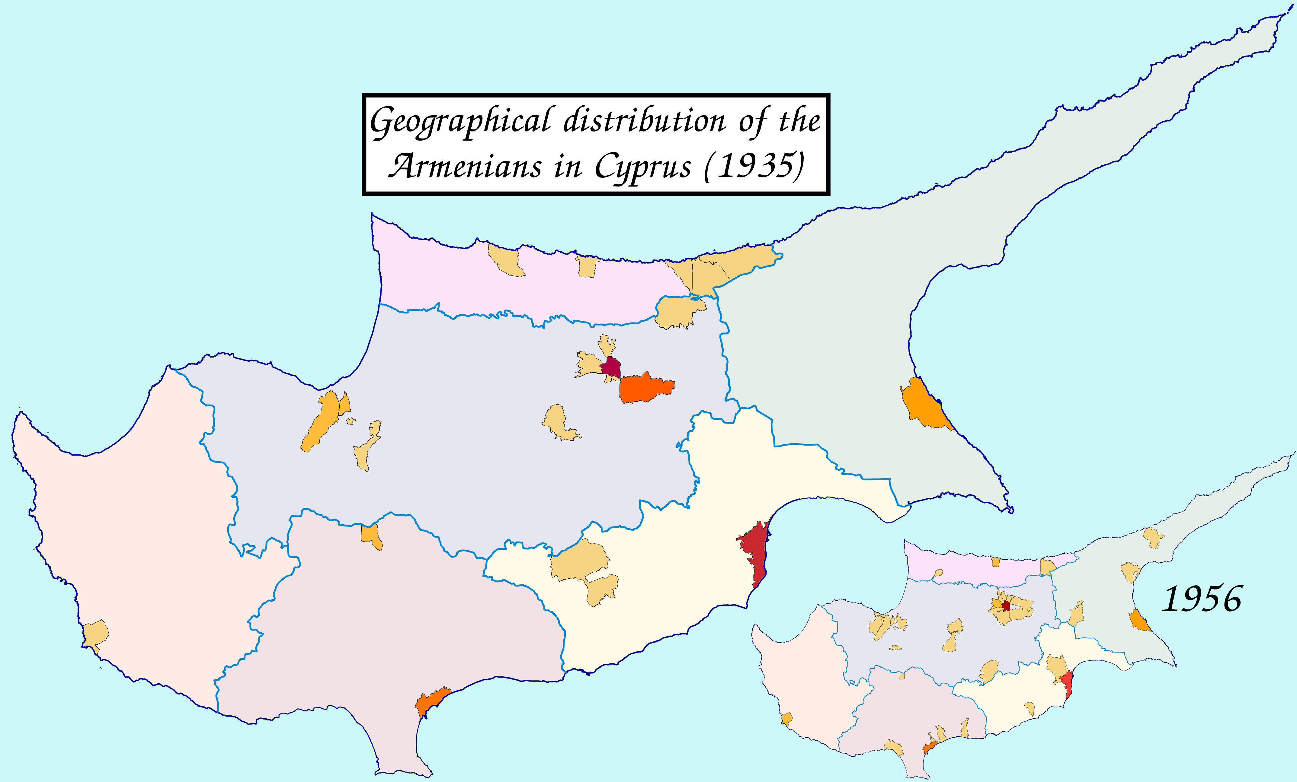 Armenians in Cyprus (1935 and 1956)